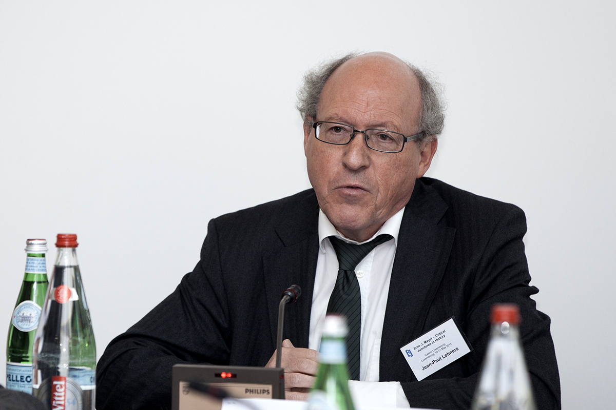 Jean-Paul Lehners, historian from Luxembourg and holder of the UNESCO Chair in Human Rights at the University of Luxembourg, taking part at the Luxembourg Institute for European and International Studies conference Arno J. Mayer – Critical Junctures in Modern History, 10-11 May 2013, Casino Luxembourg.